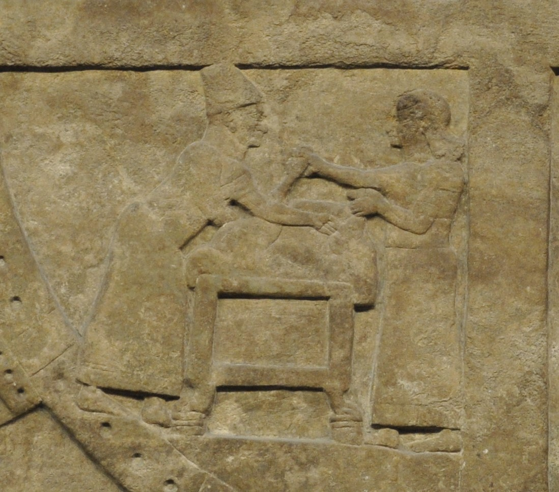 A diviner and his assitant preparing a sacrificial animal ofr purpose of divination (hepatoscopy or extispicy). Detail of a relief from the North-West Palace of Nimrud, 9th century BC.